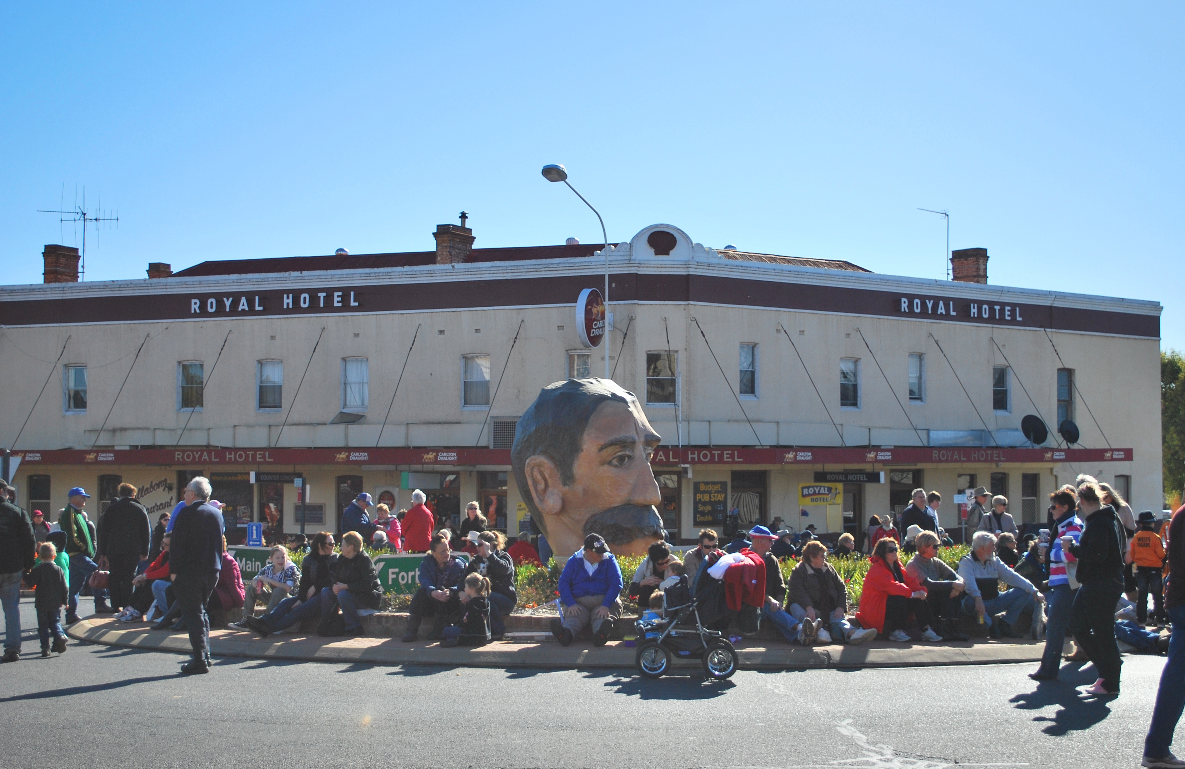 A giant bust of Henry Lawson with the Royal Hotel in the background at Grenfell, New South Wales